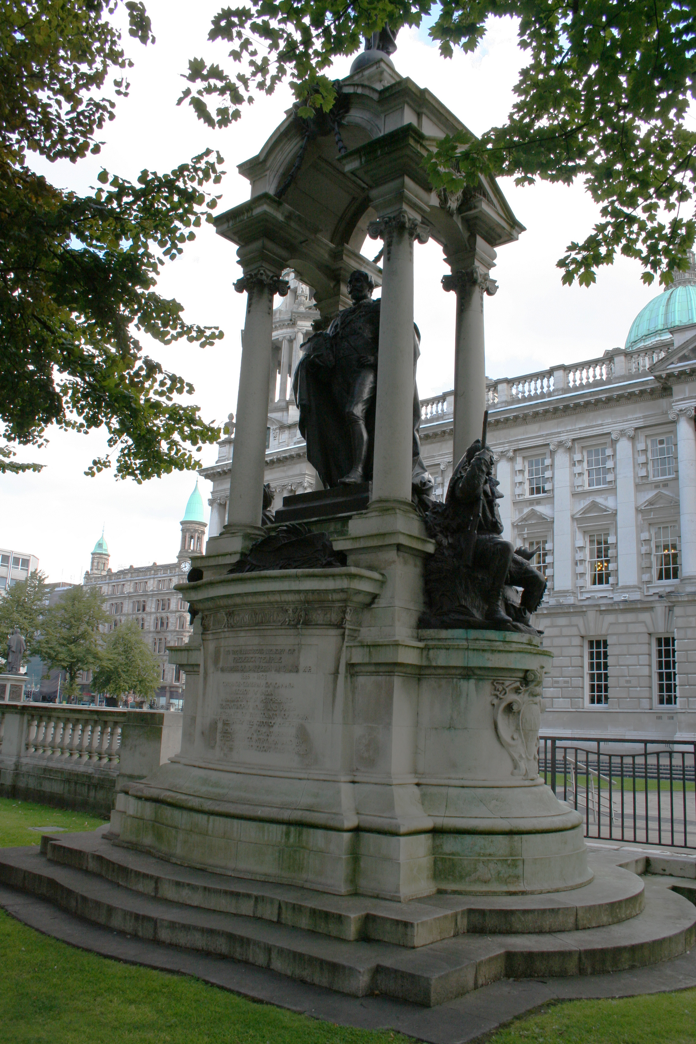 Monument to Frederick Temple in the grounds of Belfast City Hall Credit: A Peter Clarke image